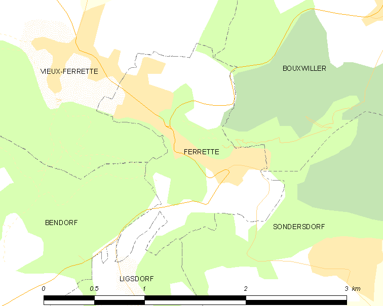 Map of French municipality